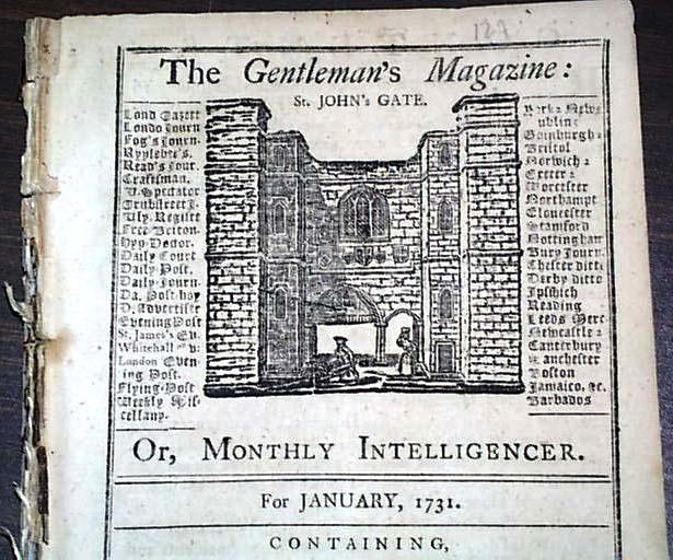 The first issue of Gentleman's Magazine of London, England, which was published in January 1731. It is the first issue of a periodical publication to use the word "magazine" in its title. The issue includes an engraving of St. John's Gate